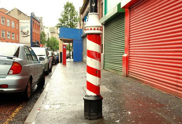 Lamppost cum barber's pole, Belfast A lamppost, outside a barber’s shop in Donegall Street, painted in the traditional red and white stripes.